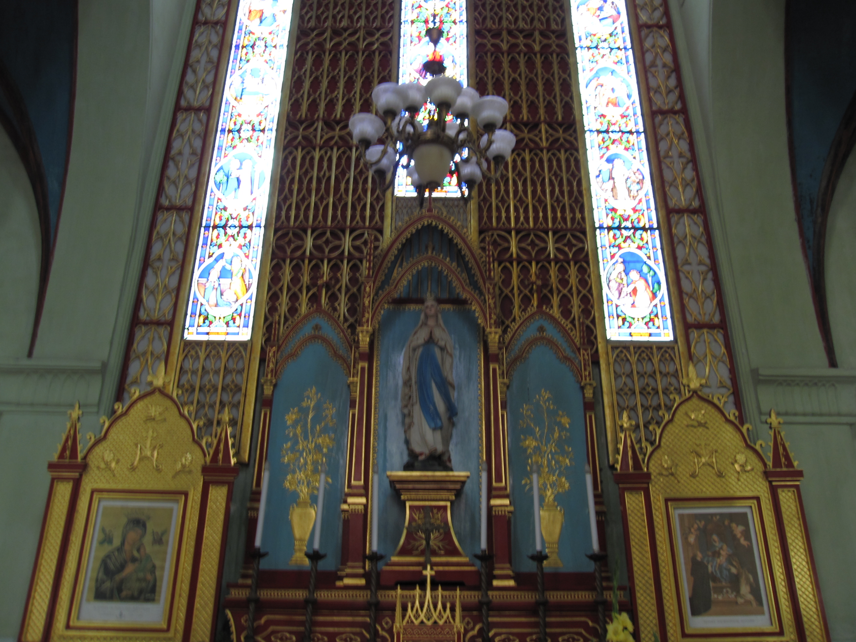 St. Joseph's Cathedral, Hanoi